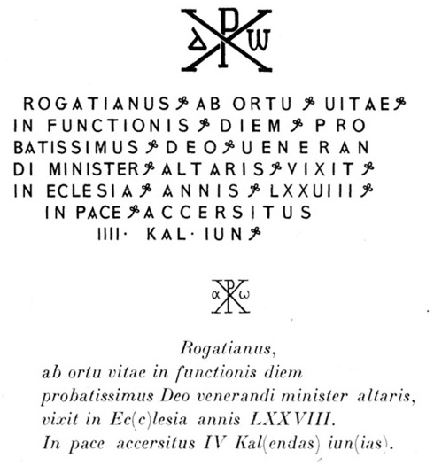 Rogatianus epitaph, cevitas popthensis, notice the Chi Rho